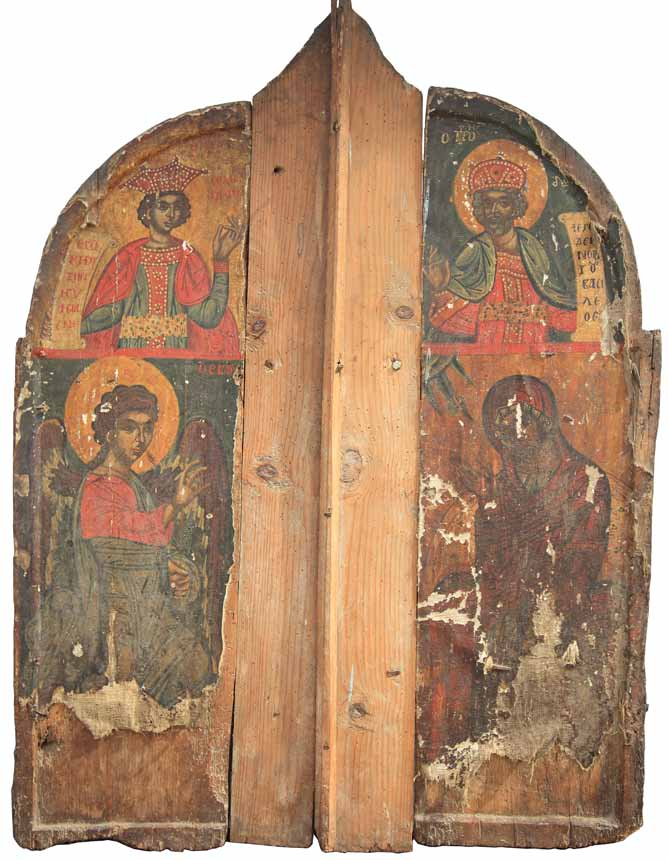 Royal Doors in Saint Athanasius Church in Bogomila, 16th Century